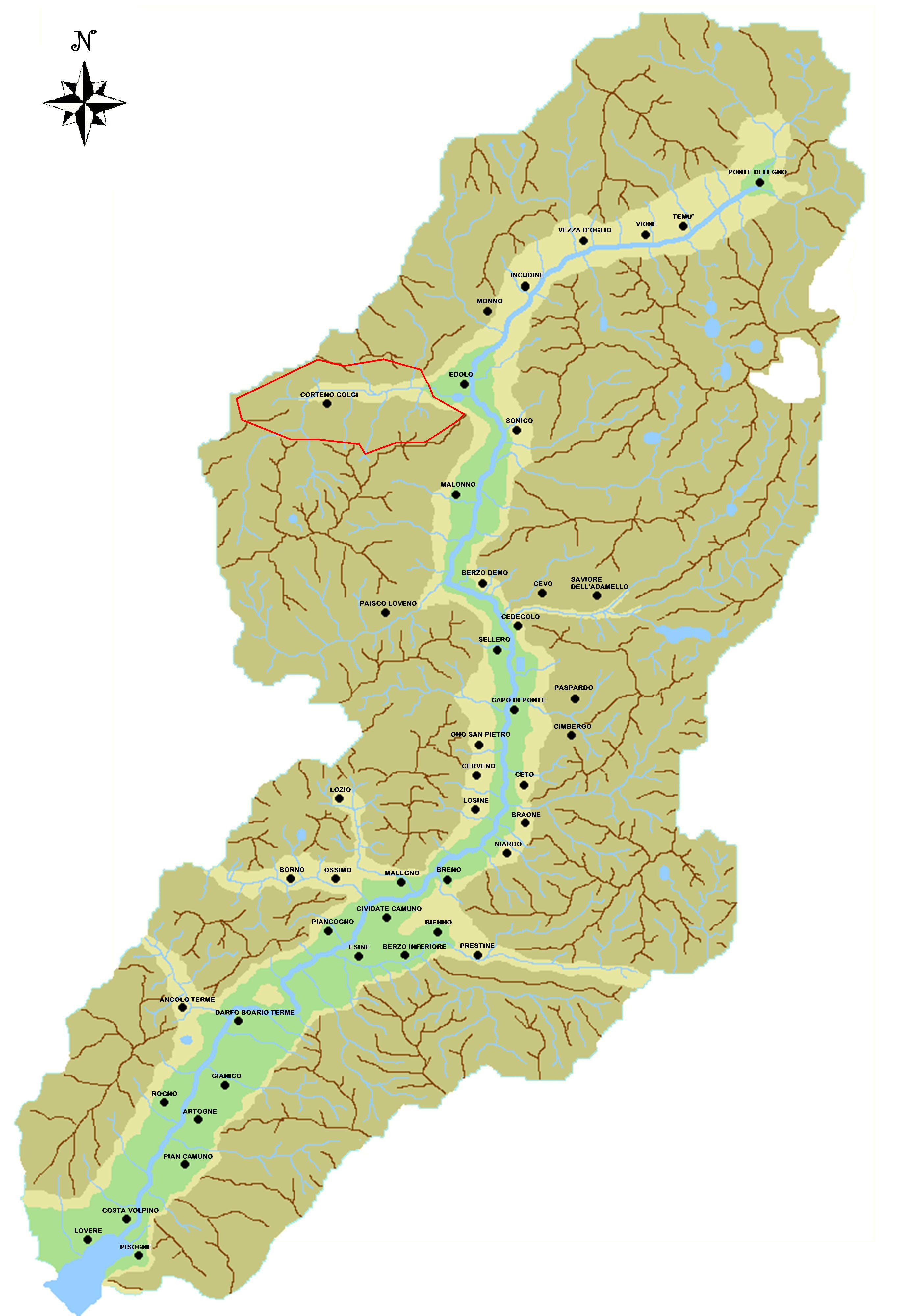 Map of Valle di Corteno, Valle Camonica